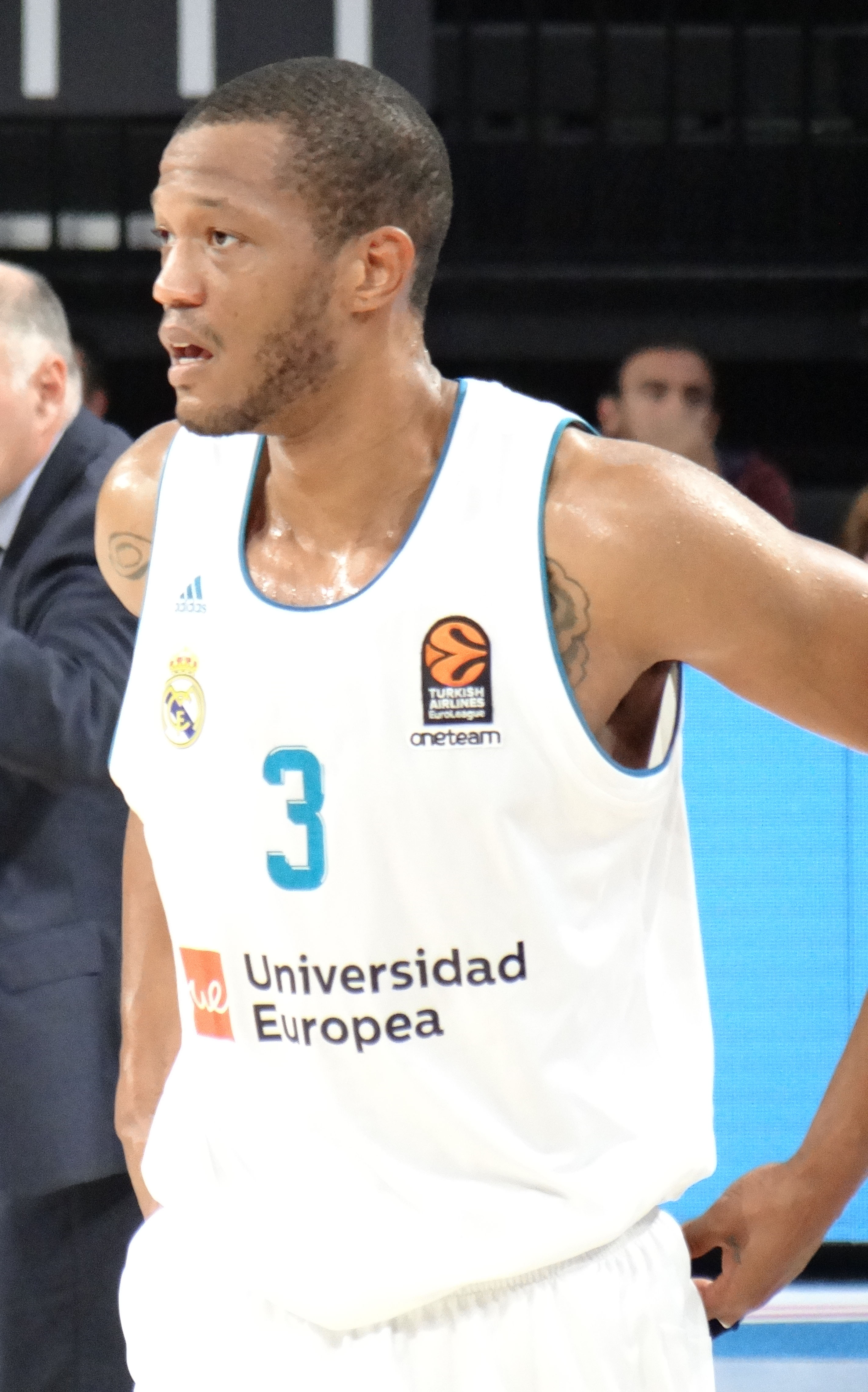 Anthony Randolph 3 Real Madrid Baloncesto Euroleague 20171012